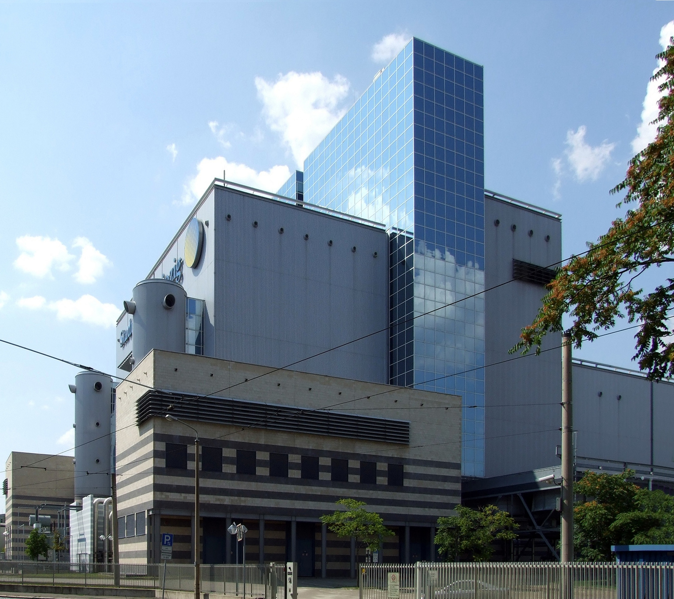 Thermal power plant in Leipzig.